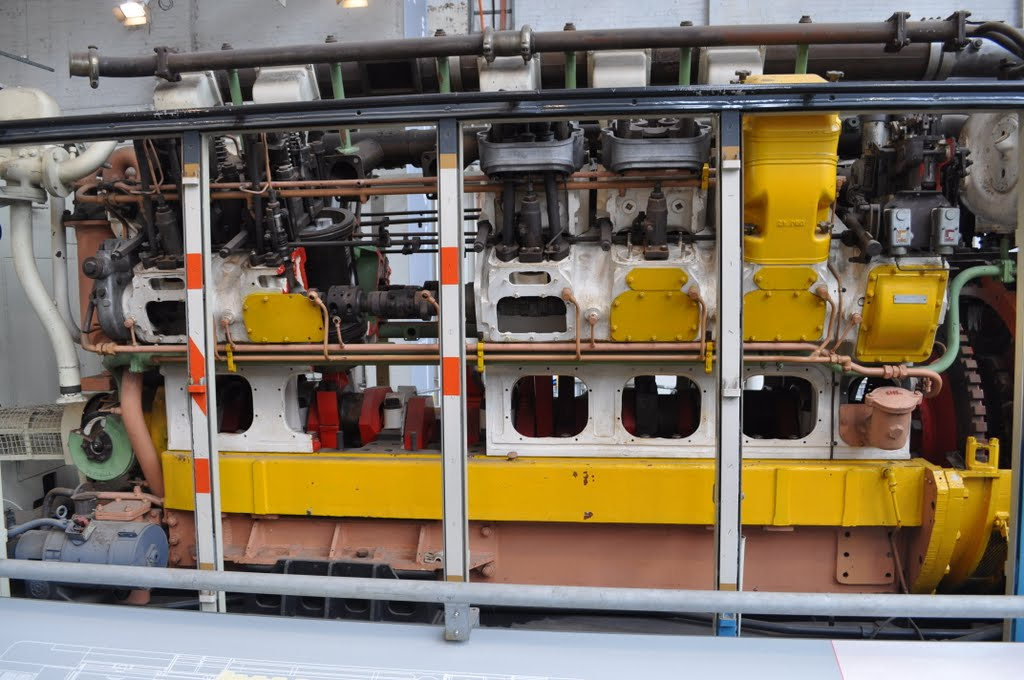 Cutaway English Electric 12SVT engine at the Workshops Rail Museum, North Ipswich, Queensland.